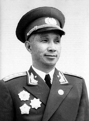 The General of Army Su Yu in 1955. 中文（中国大陆）: “共和国第一大将”粟裕